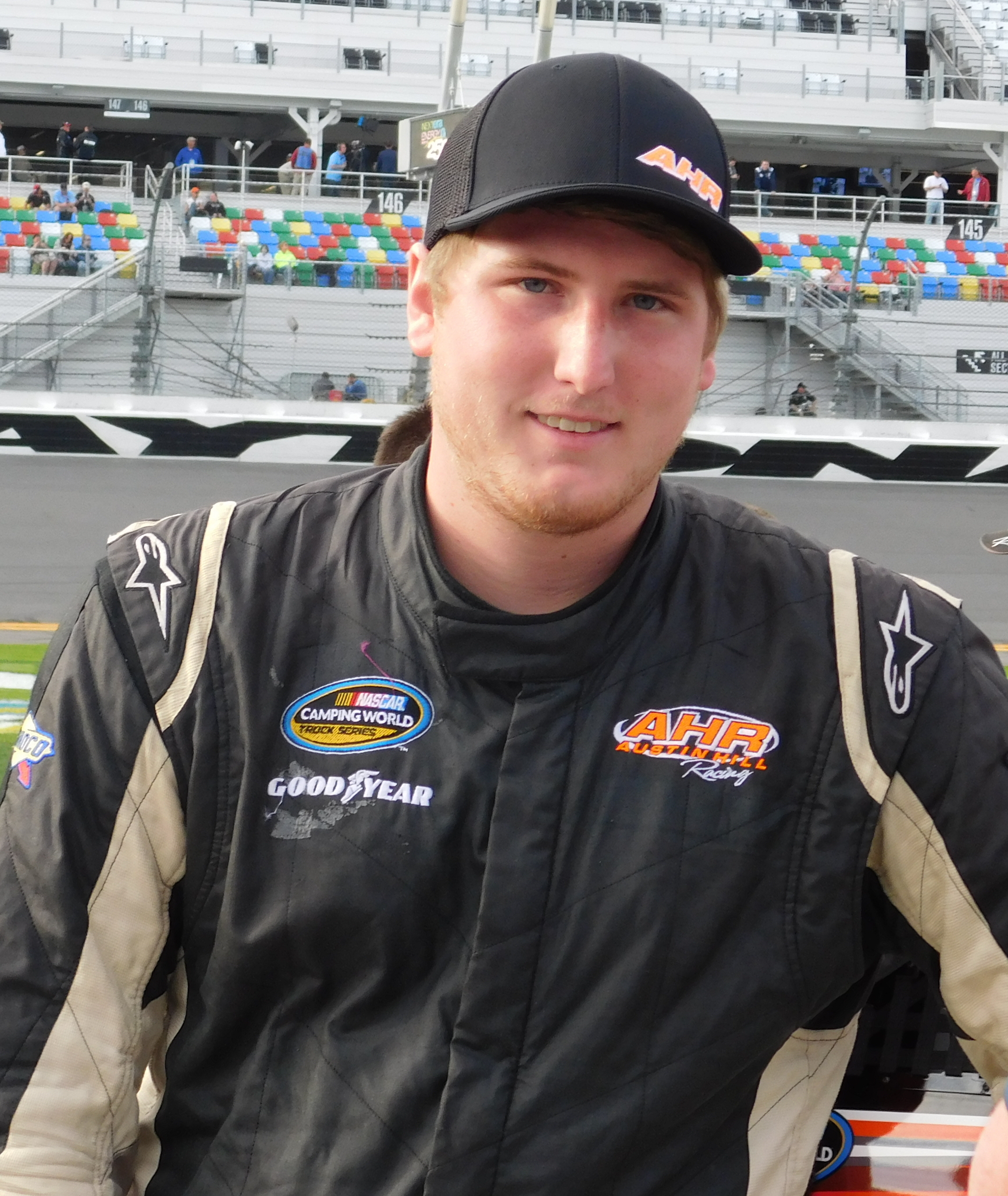 Austin Hill at Daytona International Speedway in 2016